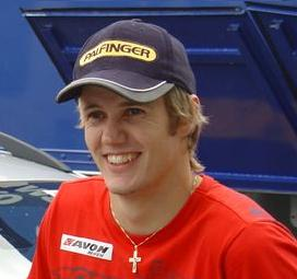 With Norbert Siedler, F3000 Euroseries Monza.